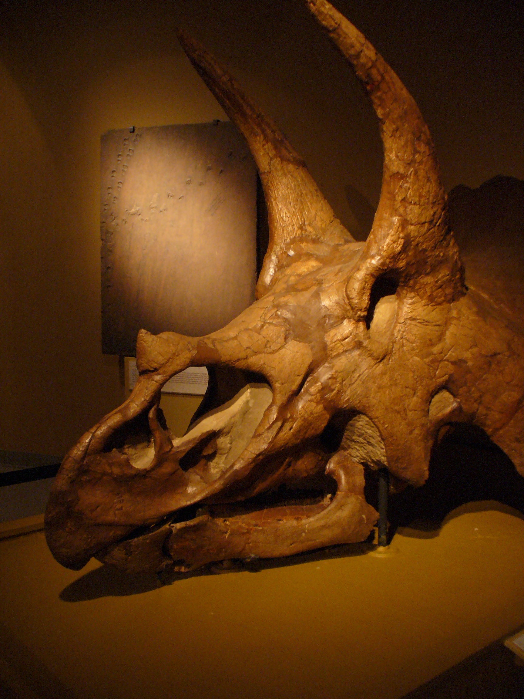 Triceratops skull at the University of Colorado Museum of Natural History, Boulder, Colorado University of Colorado Museum of Natural History LocationBoulder, ColoradoCoordinates40° 00′ 25″ N, 105° 16′ 22″ W Established1909Website control : Q4306263 VIAF: 136369899